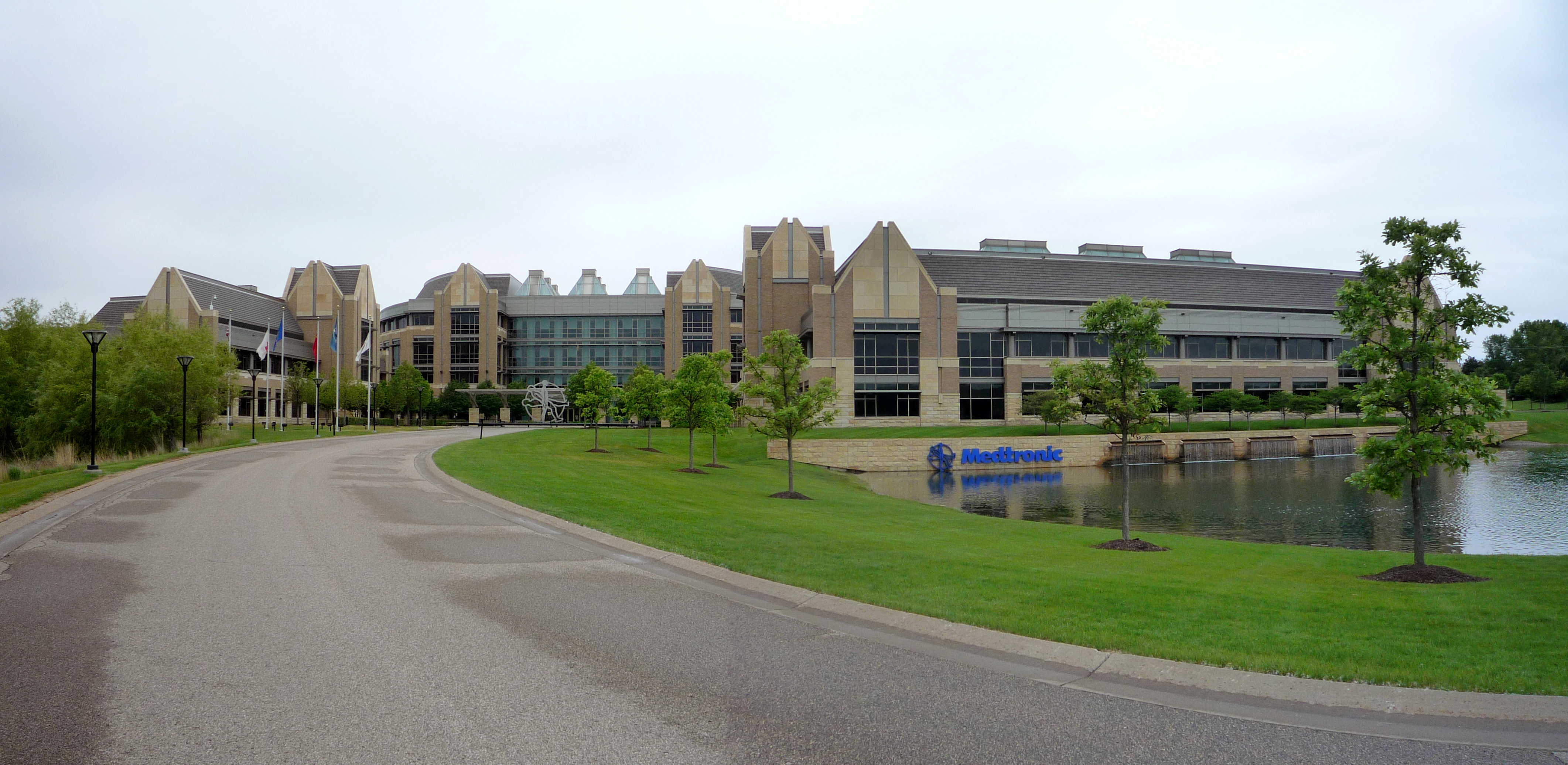 The world headquarters of Medtronic, Fridley, Minnesota, USA.